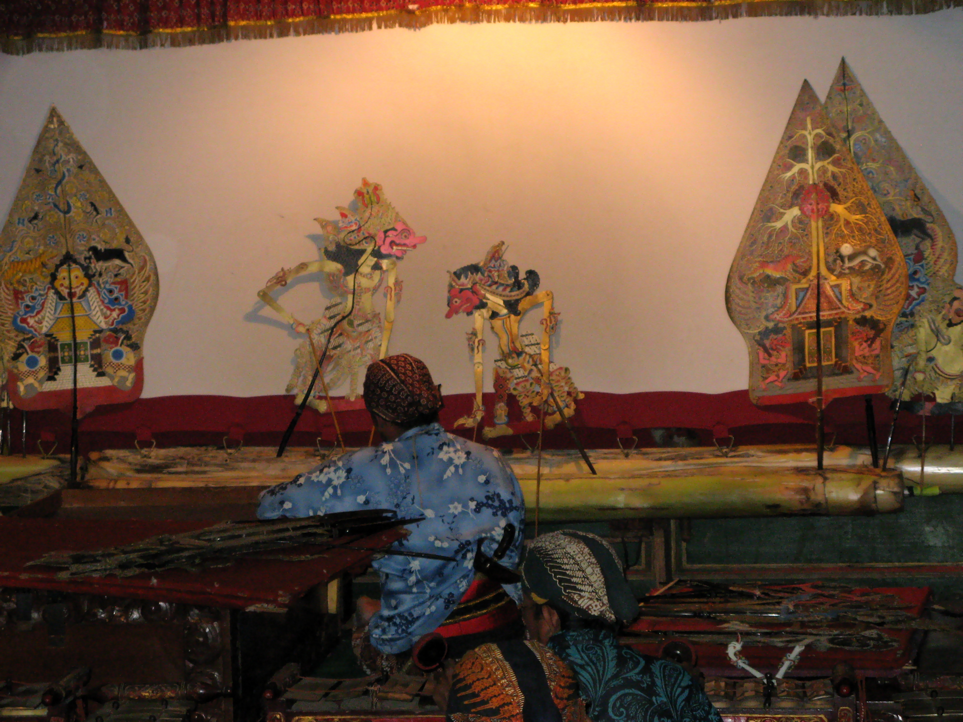 The action behind the screen is much more lively and colorful than the shadowed view in front. During a performance, the audience wanders all around to see what's going on from every side. The spade-shaped cutouts, seen here, are used for separating scenes and can also represent mountains, forests, etc. as needed. To keep things well-organized, the dalang, who speaks all the dialogue and leads the orchestra as well as manipulating the puppets, racks his puppets that represent the good characters on his right, while the bad characters are similarly arranged on the left.